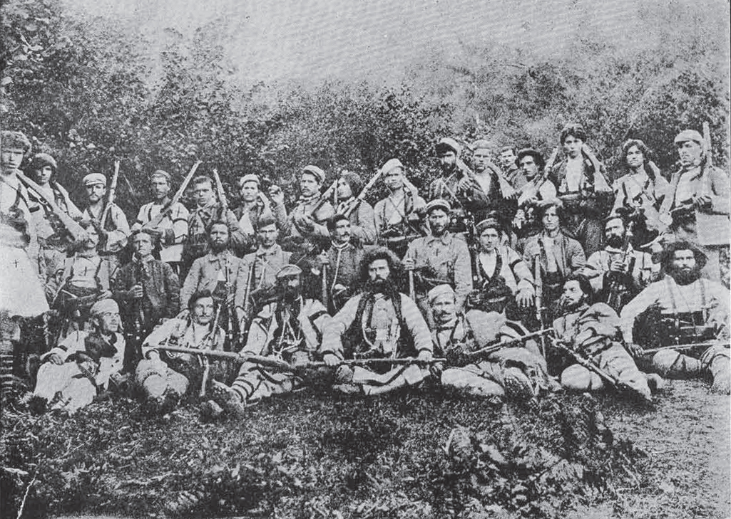 Cheta of Tane Nikolov, Mircho Naydenov and Gyore Spirkov Lenishtanec